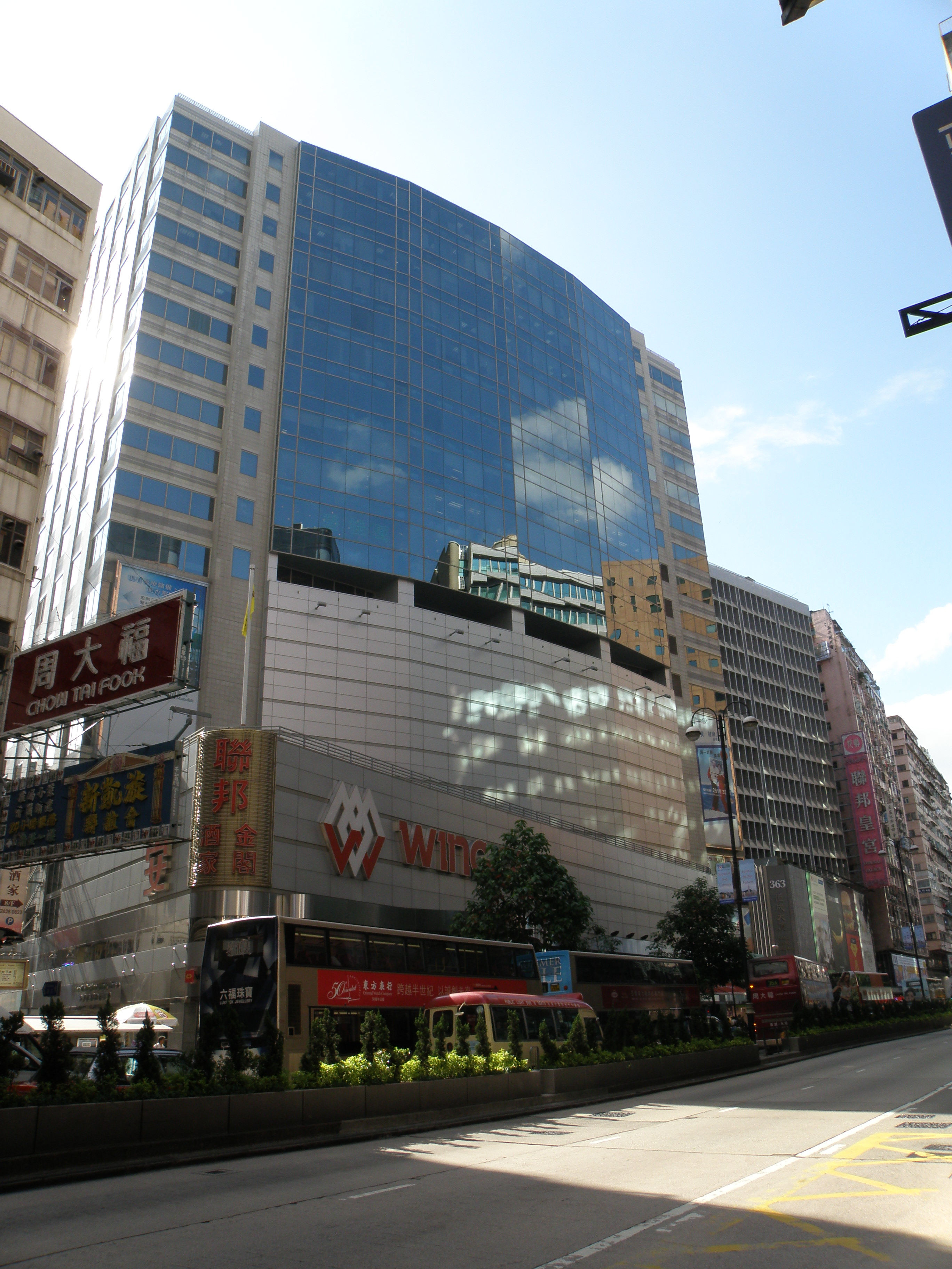 Manulife Provident Funds Place in Jordan, Hong Kong.